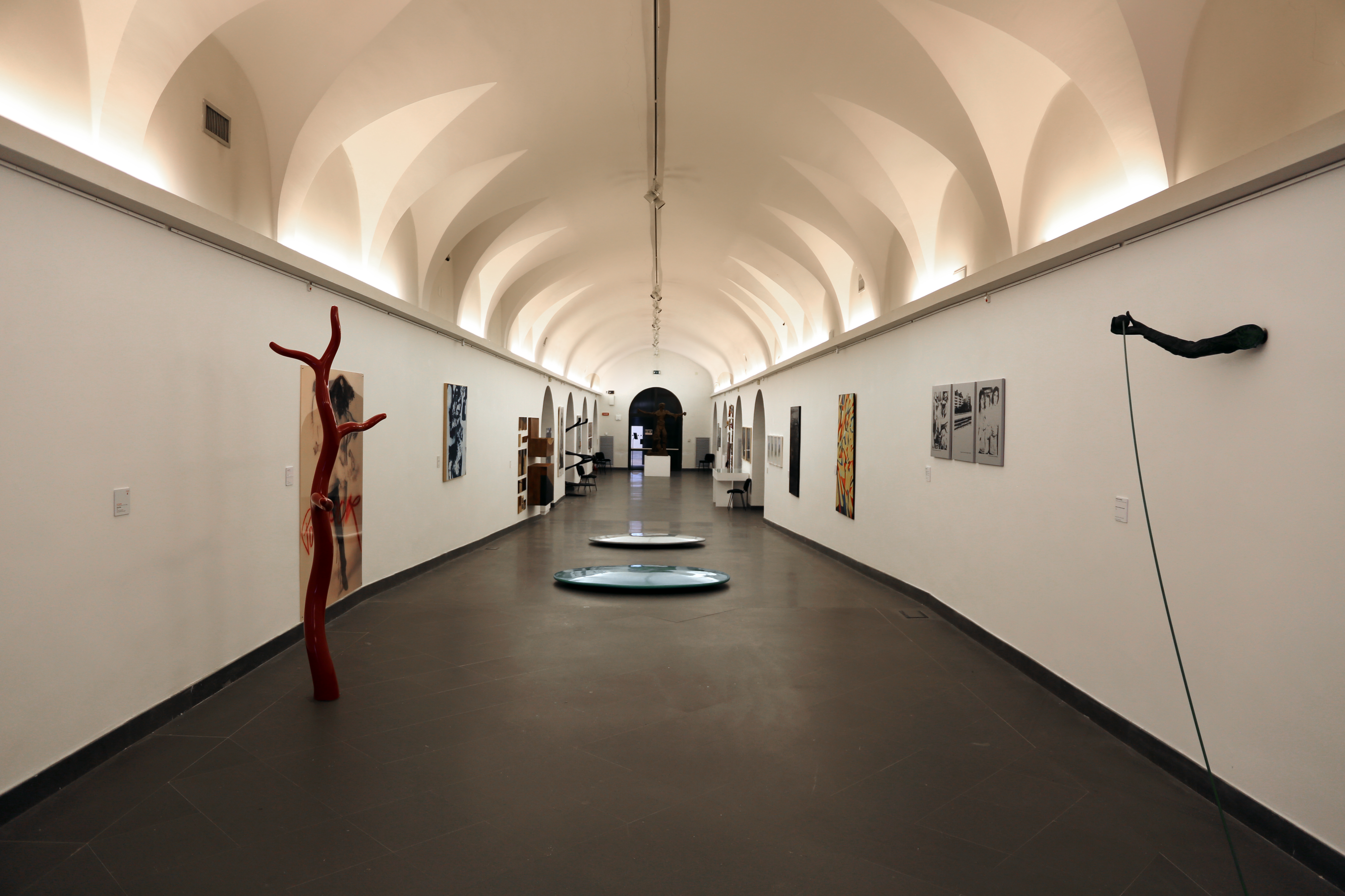 Museo Napoli Novecento